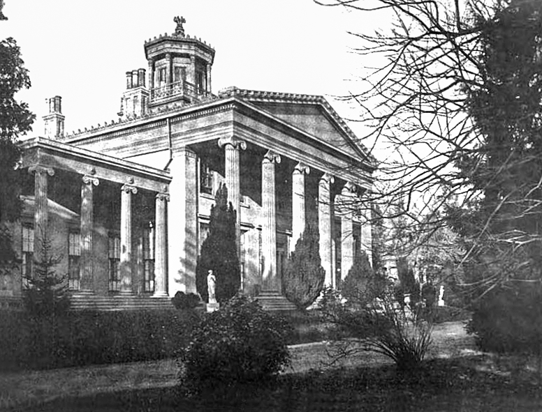 Phil-Ellena, the estate of George W. Carpenter in Germantown, Pennsylvania. The estate existed between 1844 and 1892 and was demolished during construction of the Mount Airy (Pelham) neighborhood.